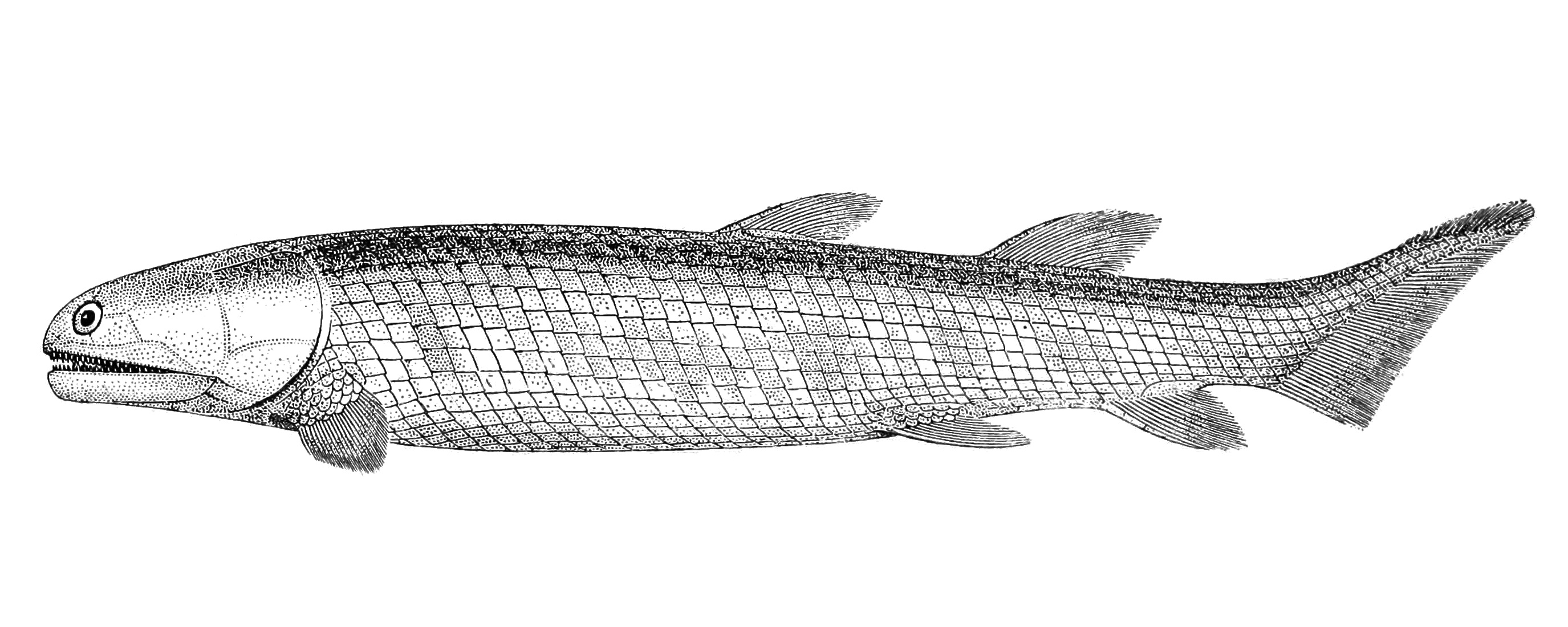 Fig. 38. — Osteolepis macrolepidotus, restored. Osteichthyes - Crossopterygii - Osteolepidae [1]